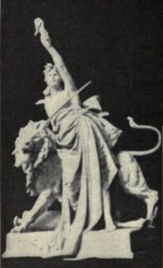 Sculpture of Revolution by Ettore Ximenes.